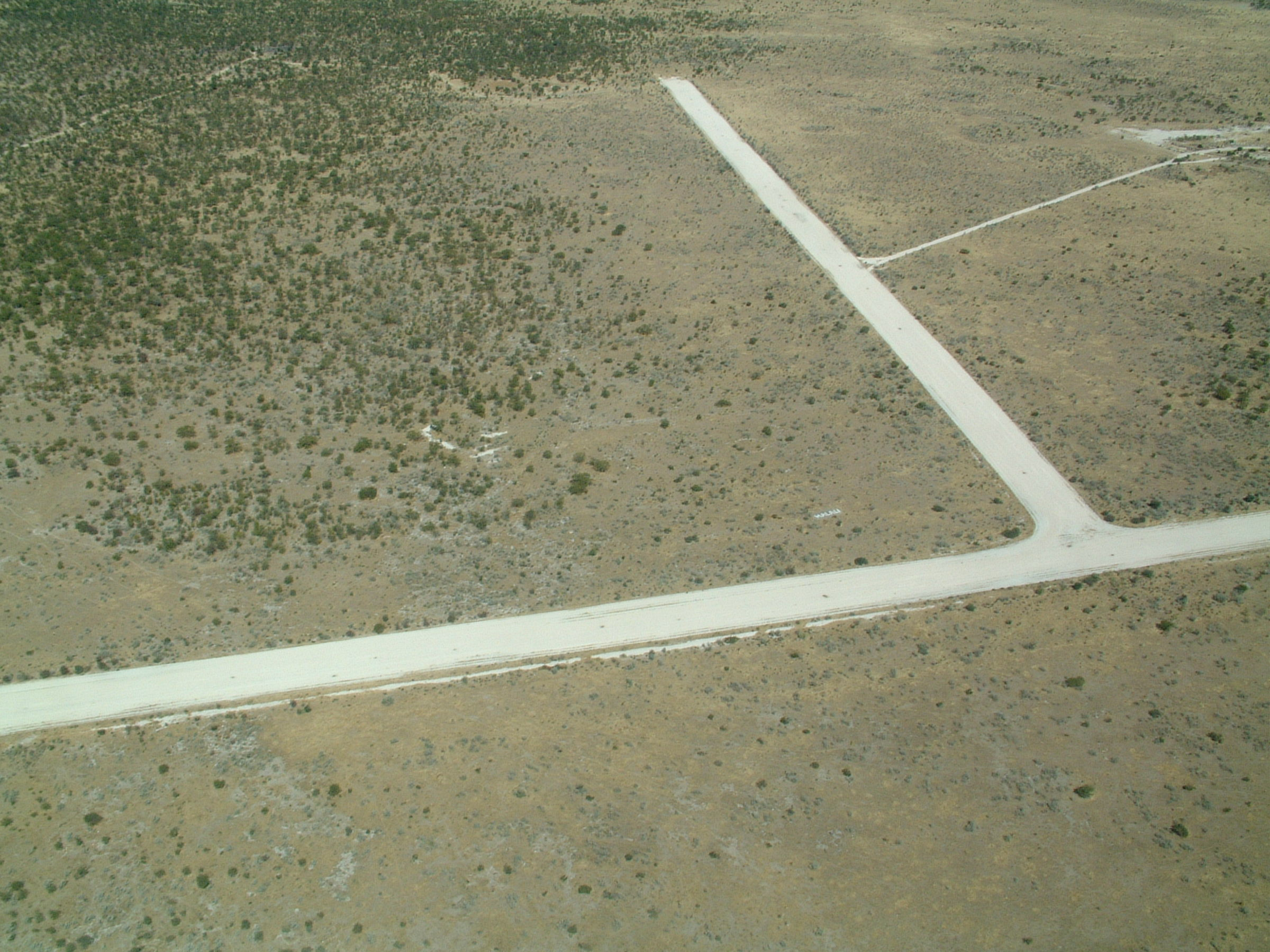 Halali Airport near the Halali Resort in Oshikoto, Namibia.